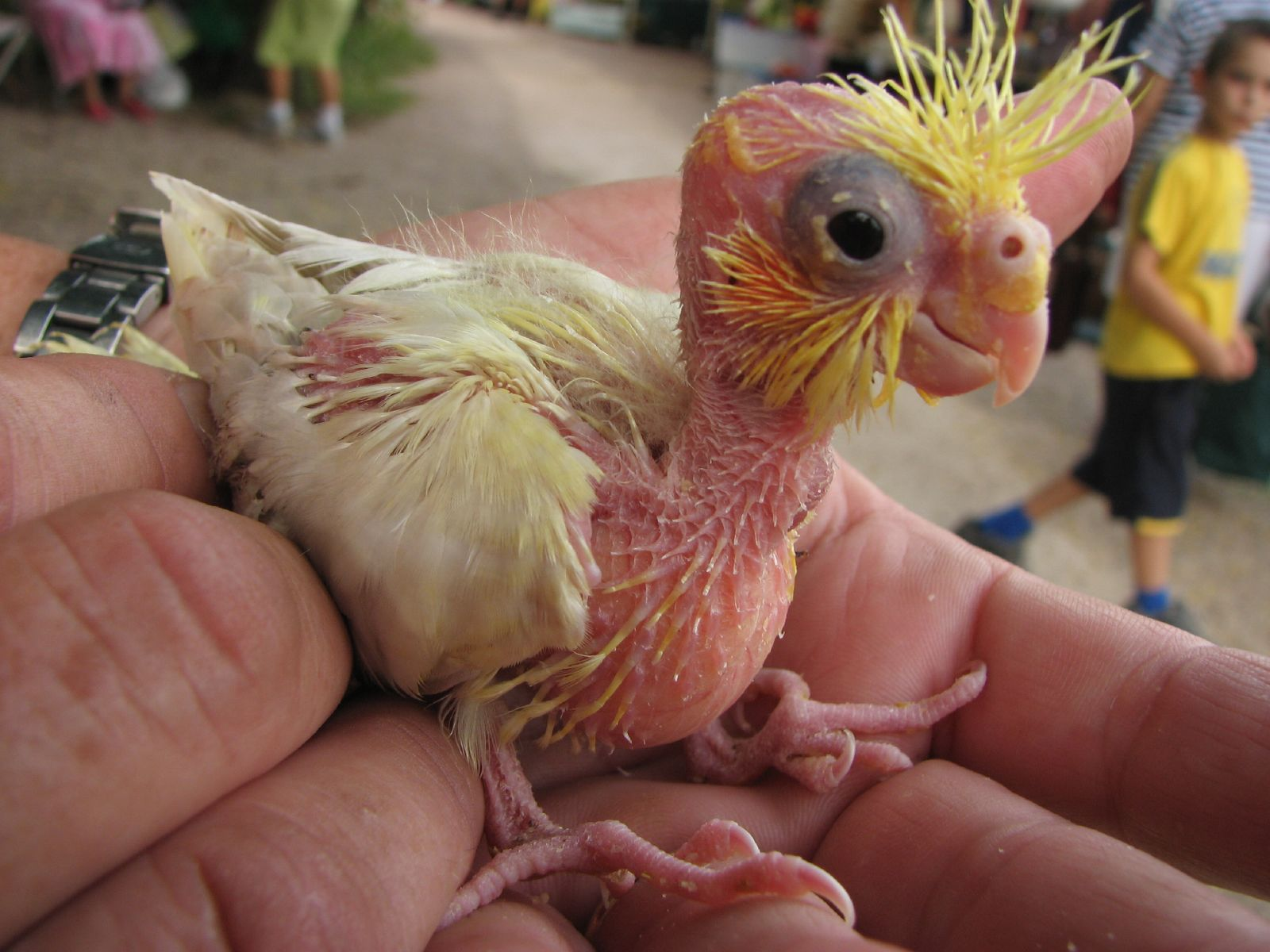 A Cockatiel chick probably about 3 wks old. It is being held in a hand.